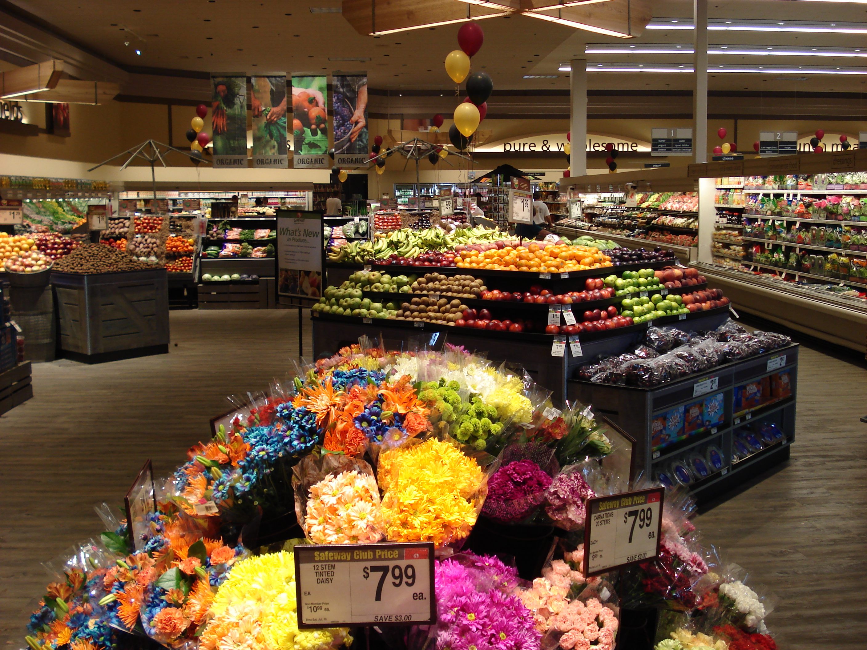 Safeway Store Lifestyle look Produce Dept.